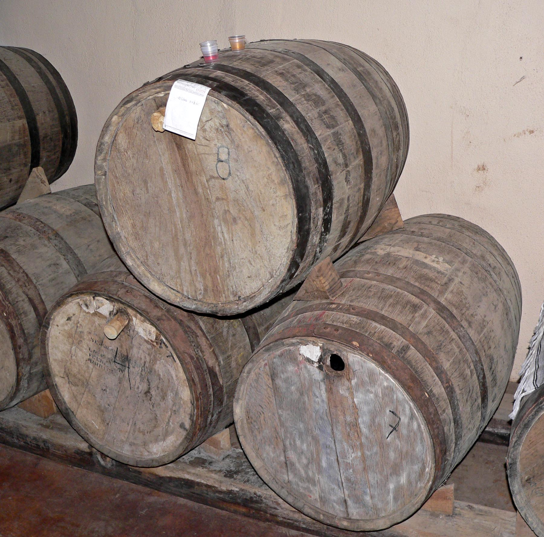 Photo of tequila barrels at Dona Engracia hacienda, Jalisco, Mexico